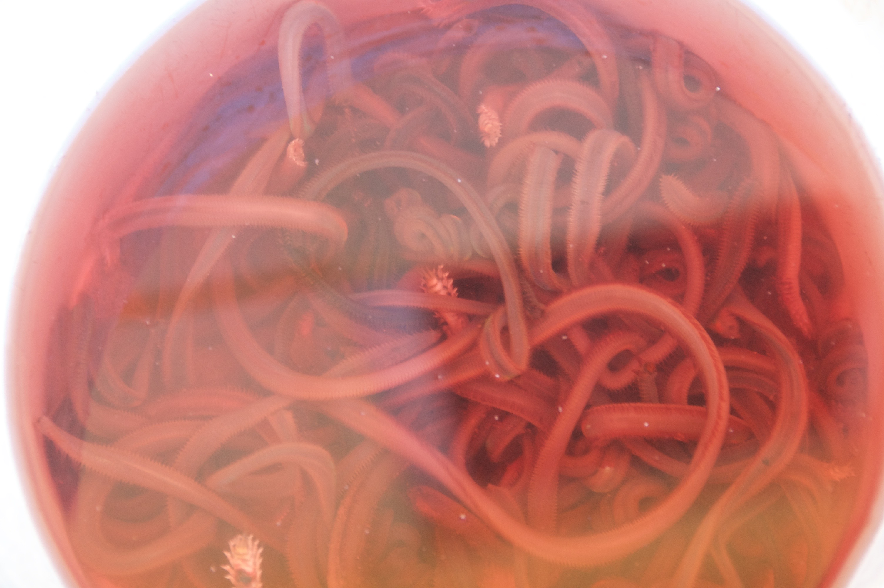 Beach worms caught by hand at Seal Rocks, NSW, Australia